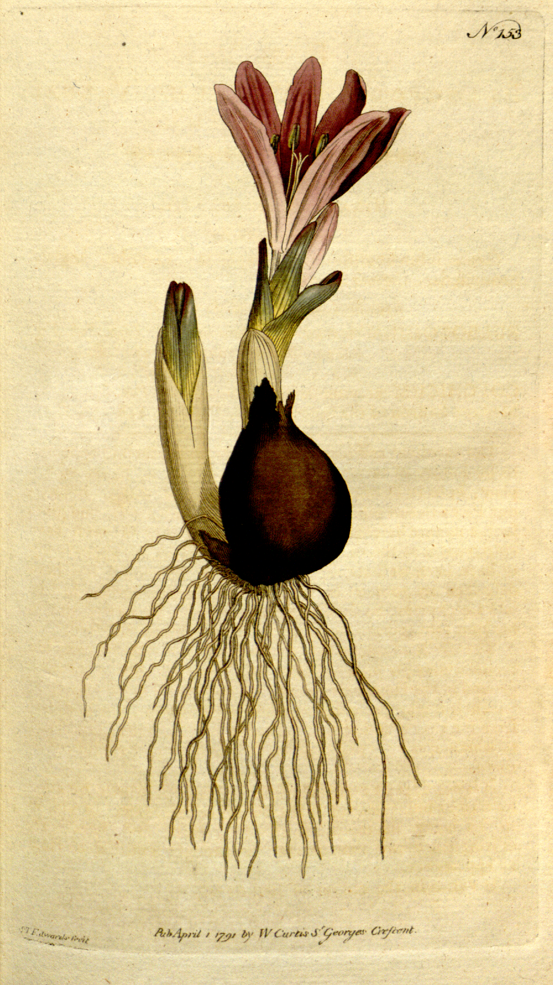 Colchicum bulbocodium Ker Gawl. (as Bulbocodium vernum L.). This is a plate from The Botanical Magazine, Volume 5.